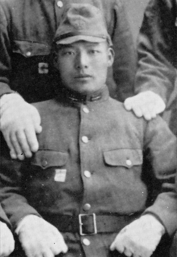 Funasaka Hiroshi as a young corporal.